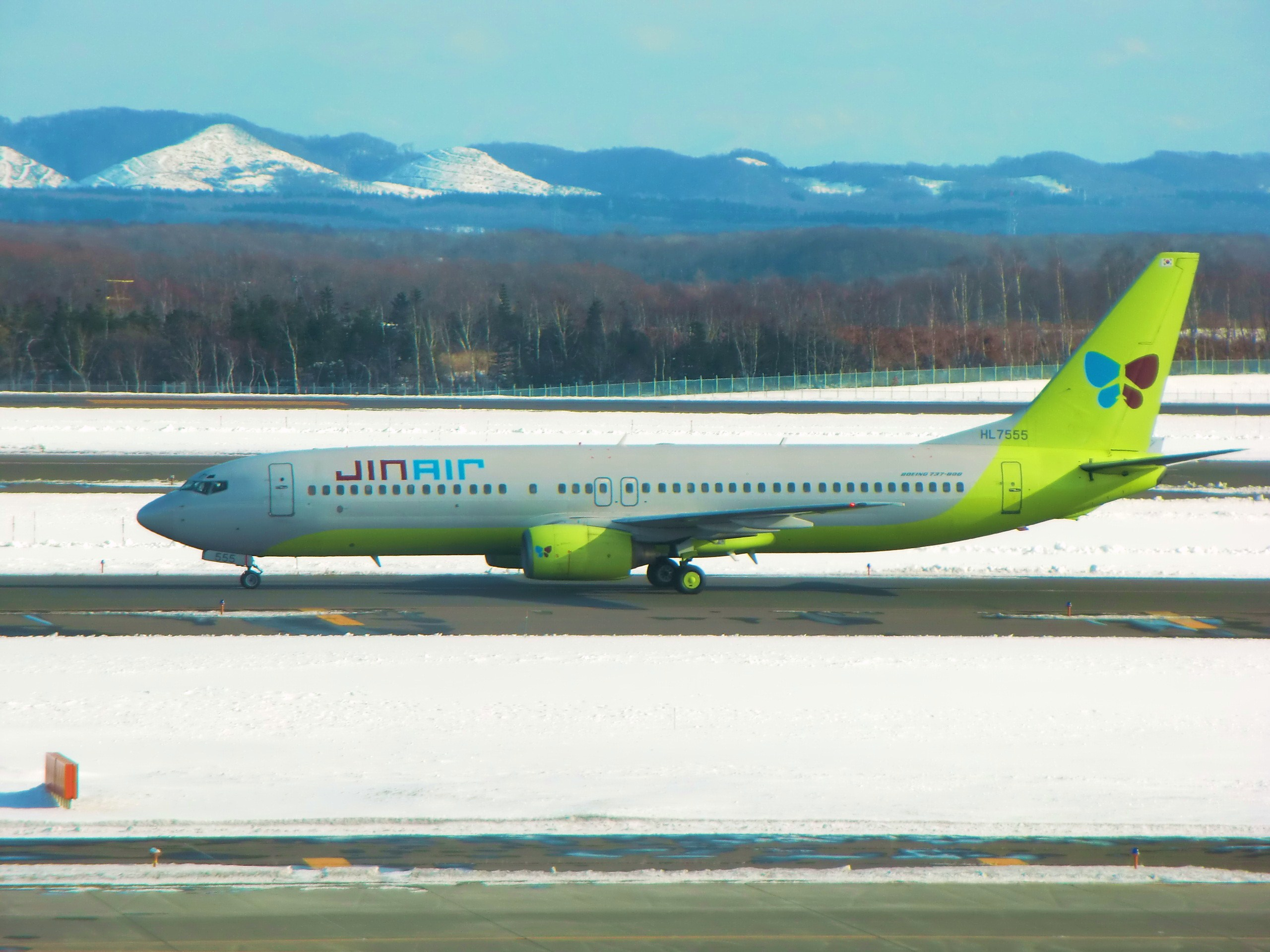 Jin Air Boeing737-800, HL7555. Taken in New Chitose Airport, Hokkaido, JAPAN.